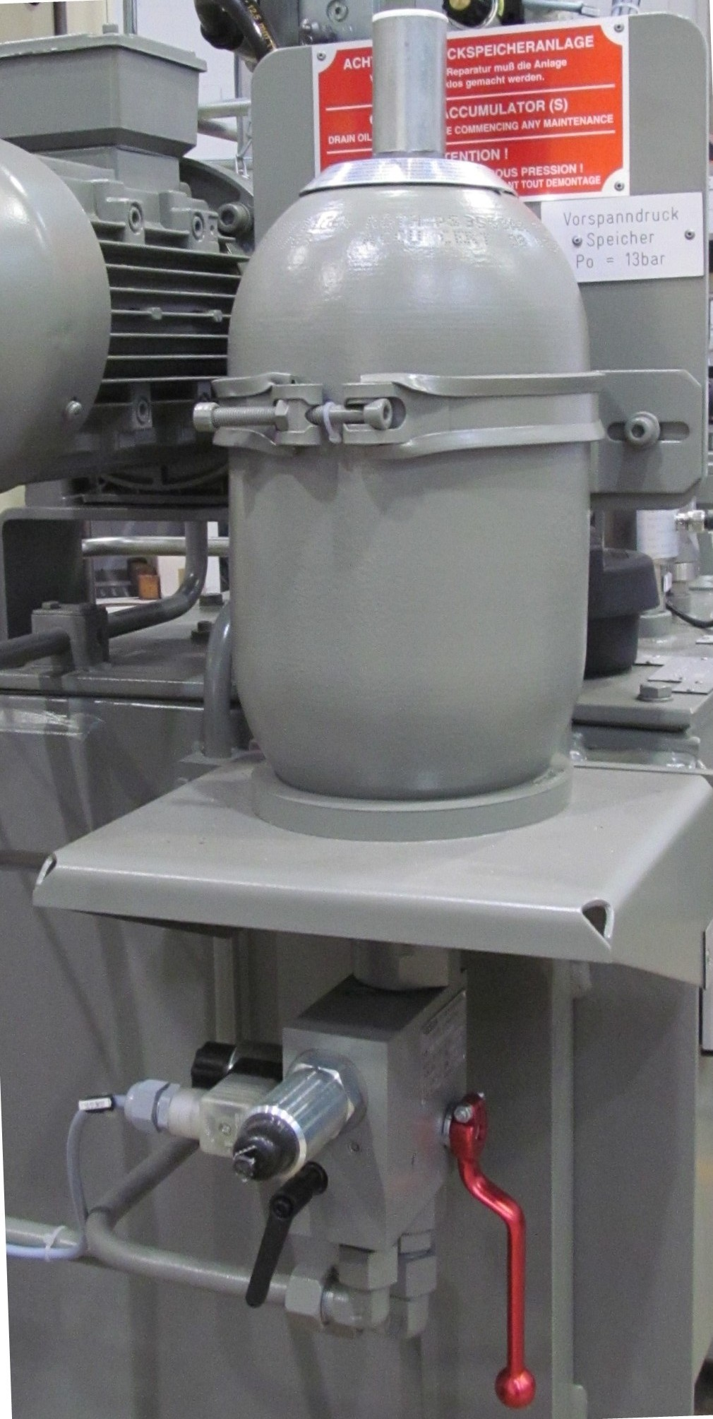 Hydraulic accumulator of a small hydraulics